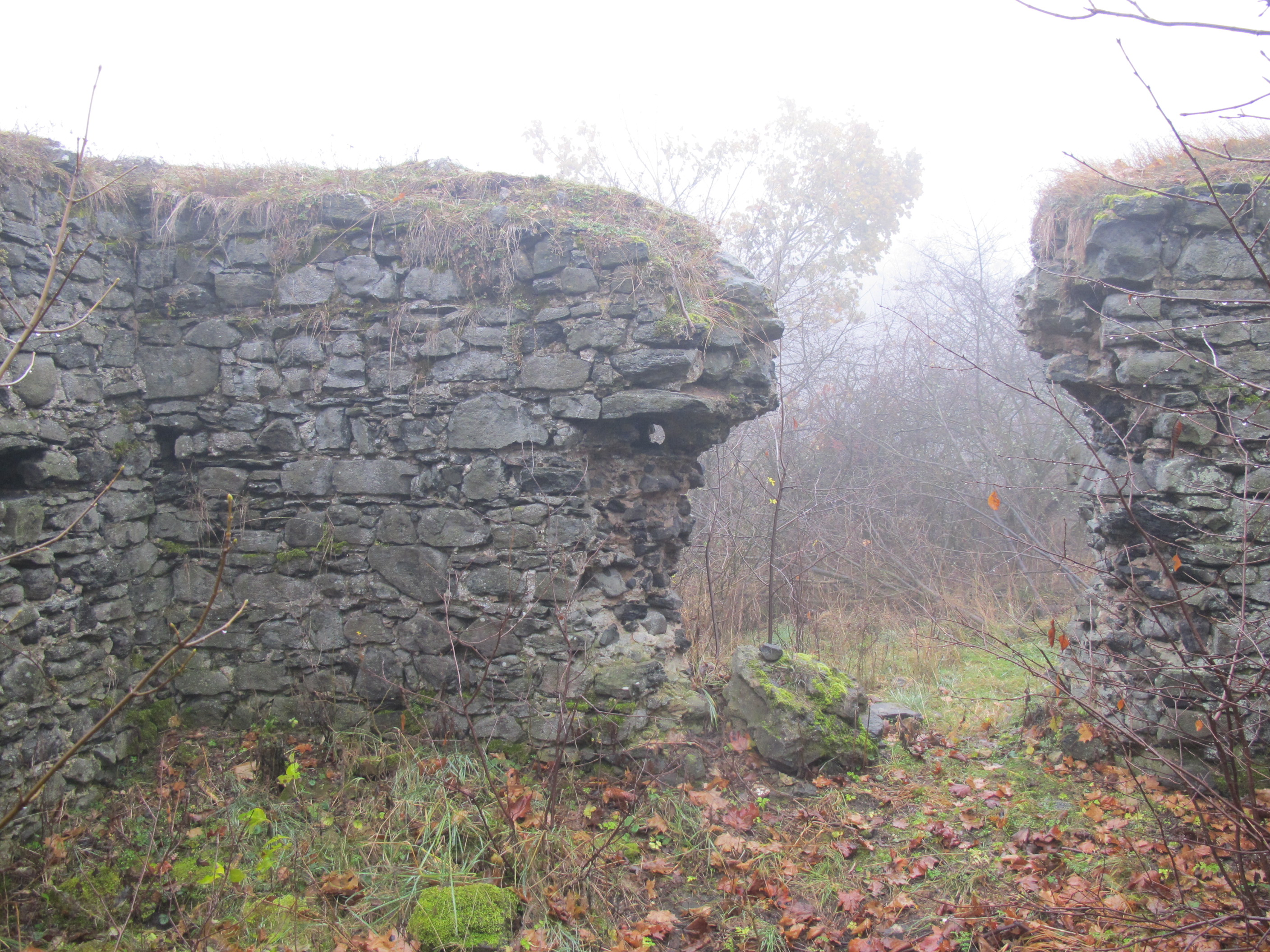 Lina, Fort in Czech Republic